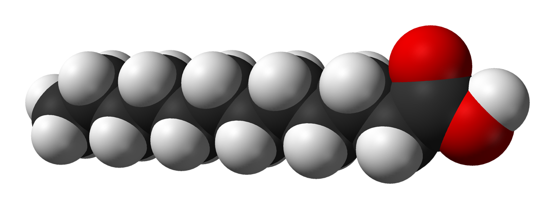 Space-filling model of the lauric acid molecule, C12H24O2, AKA dodecanoic acid.